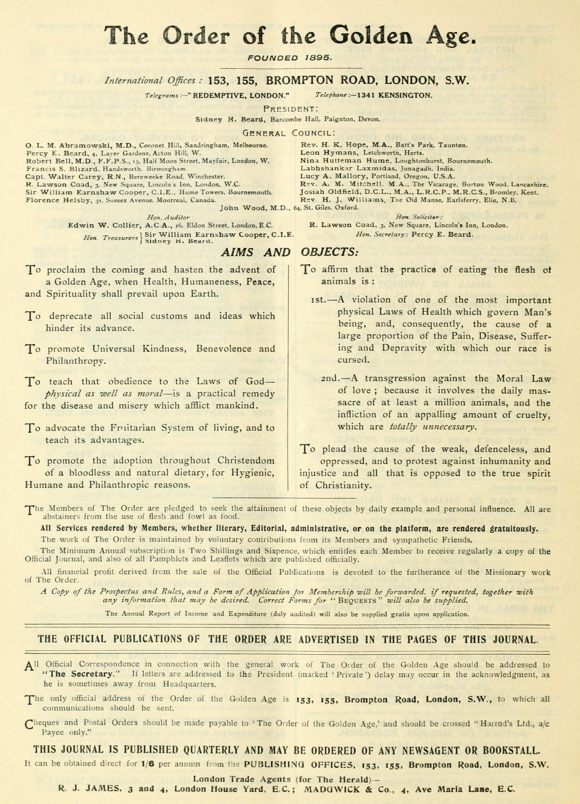 General Council of the Order of the Golden Age, April 1910.